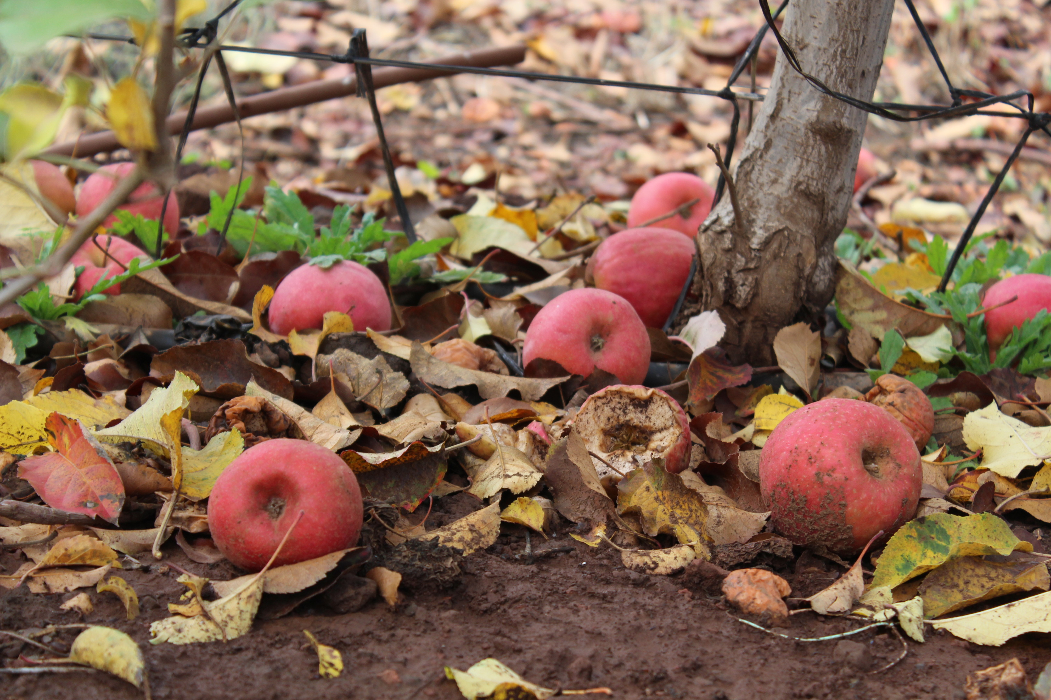 Apple orchards (Pink Lady) and vinyards of Kibutz El-Rom at Mount Avital Caldera, Golan Hights, Israel This image was taken as part of the Elef Millim project trip to the Northern Golan Hights, in Israel which was held on Friday, 6th December 2013. To view all images uploaded as part of the Elef Millim Project